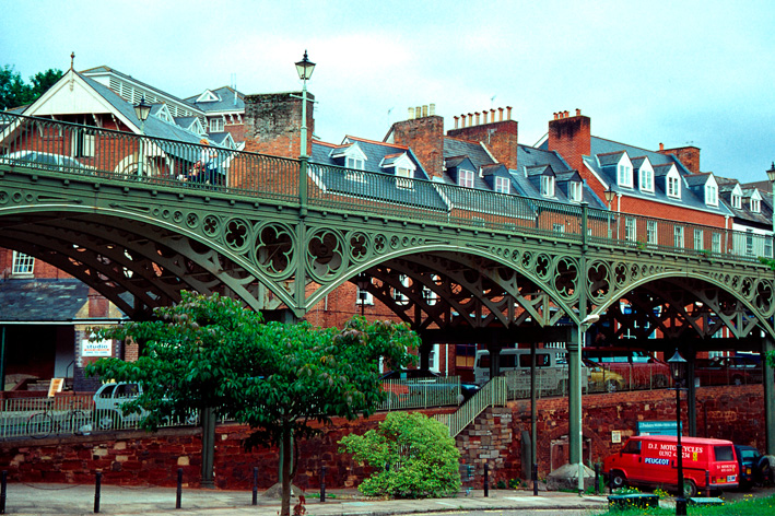 Iron Bridge, Exeter.